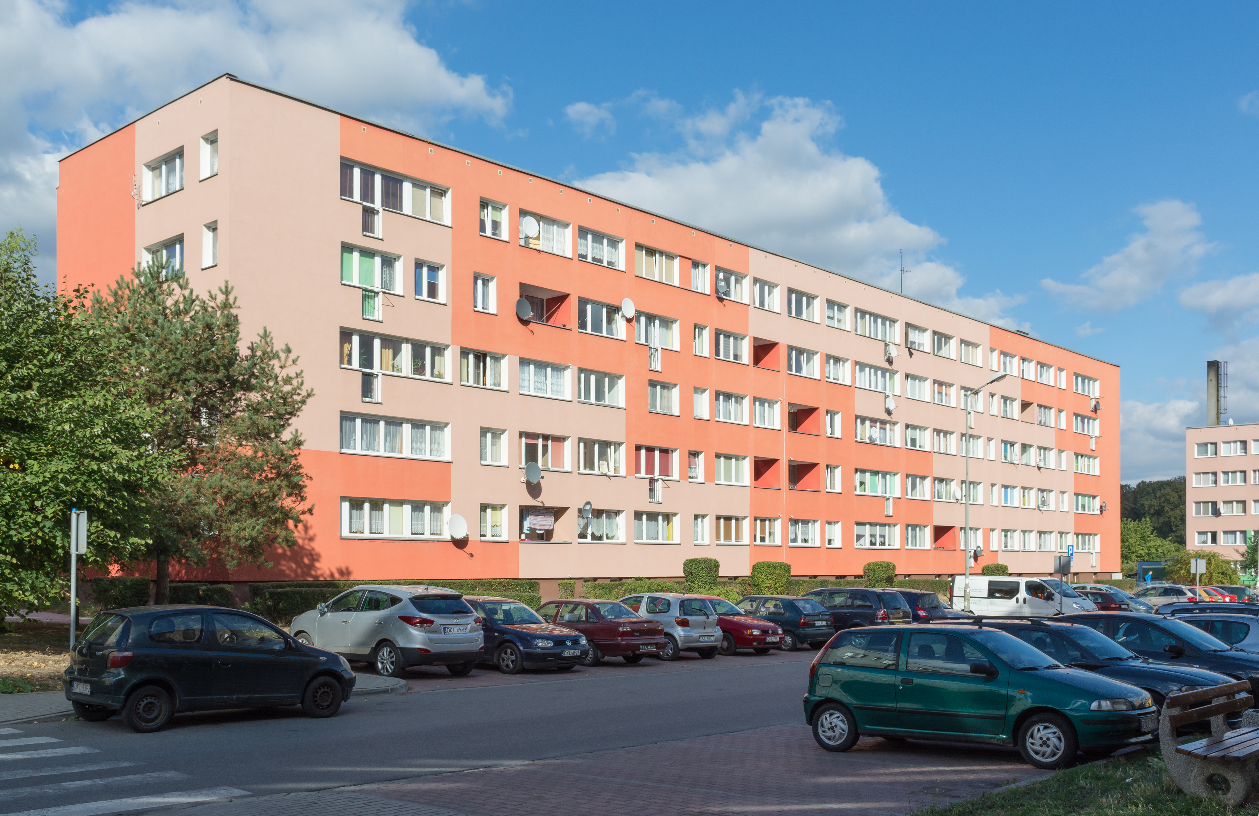 Św. Wojciecha Street in Kłodzko